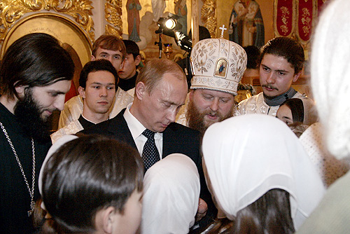 YAKUTSK. In the Preobrazhenskii Cathedral.